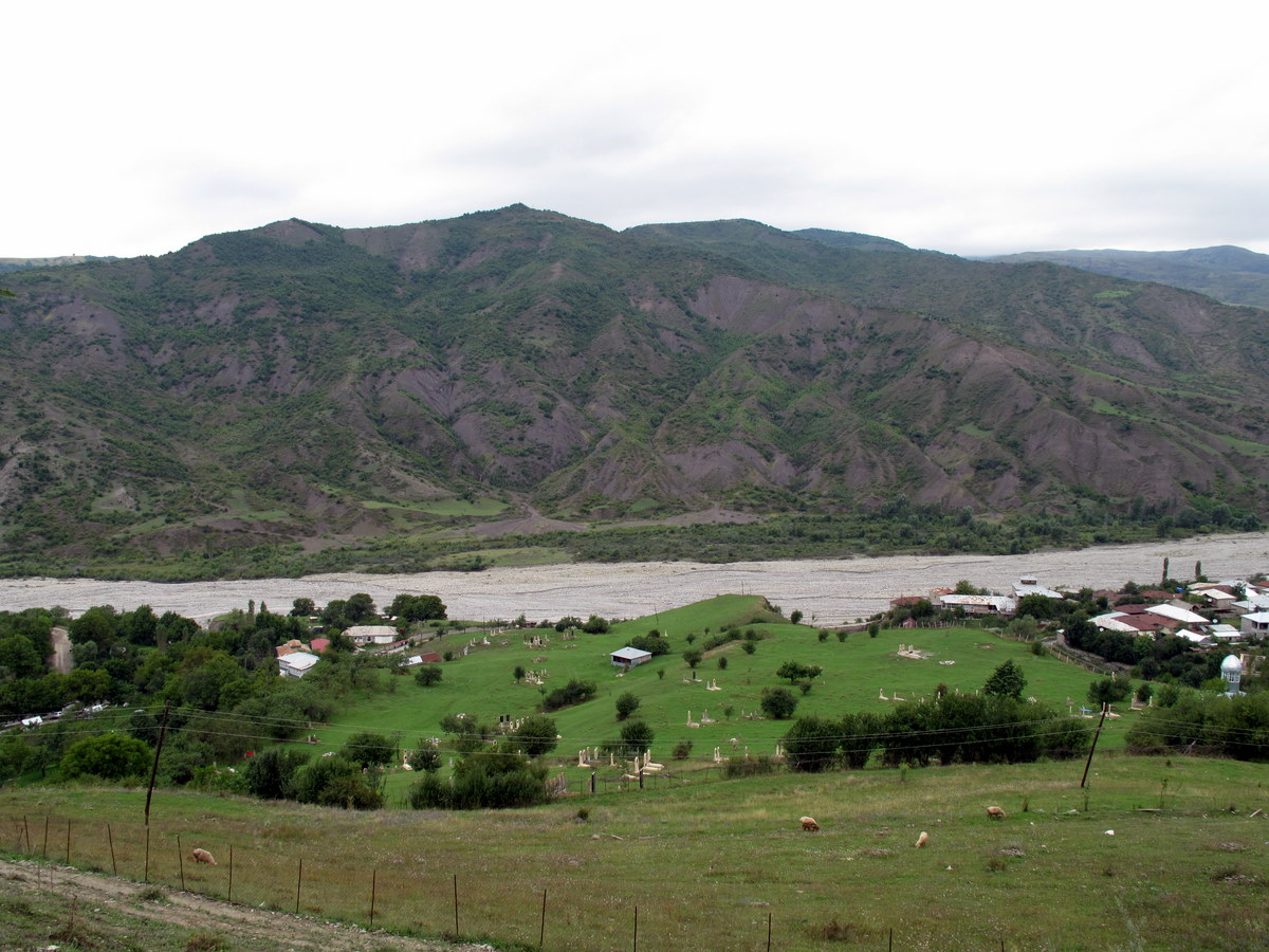 photos from azerbaijan, as part of trip documented on